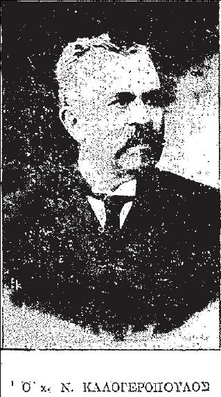 Nikolaos Kalogeropoulos, Prime Minister of Greece 1916, 1921